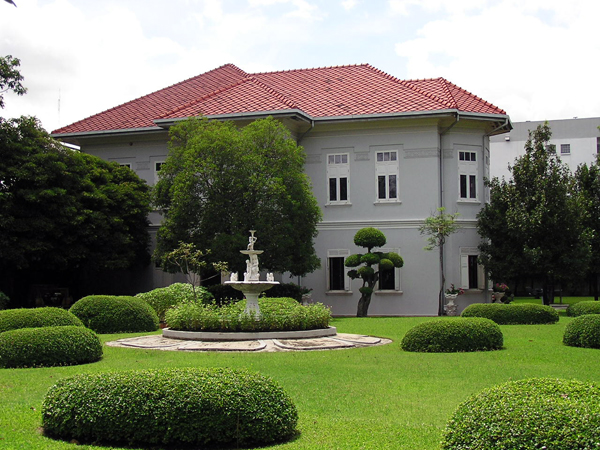 Suan Farang Kangsai Residential Hall and garden, Dusit Palace, Bangkok, Thailand